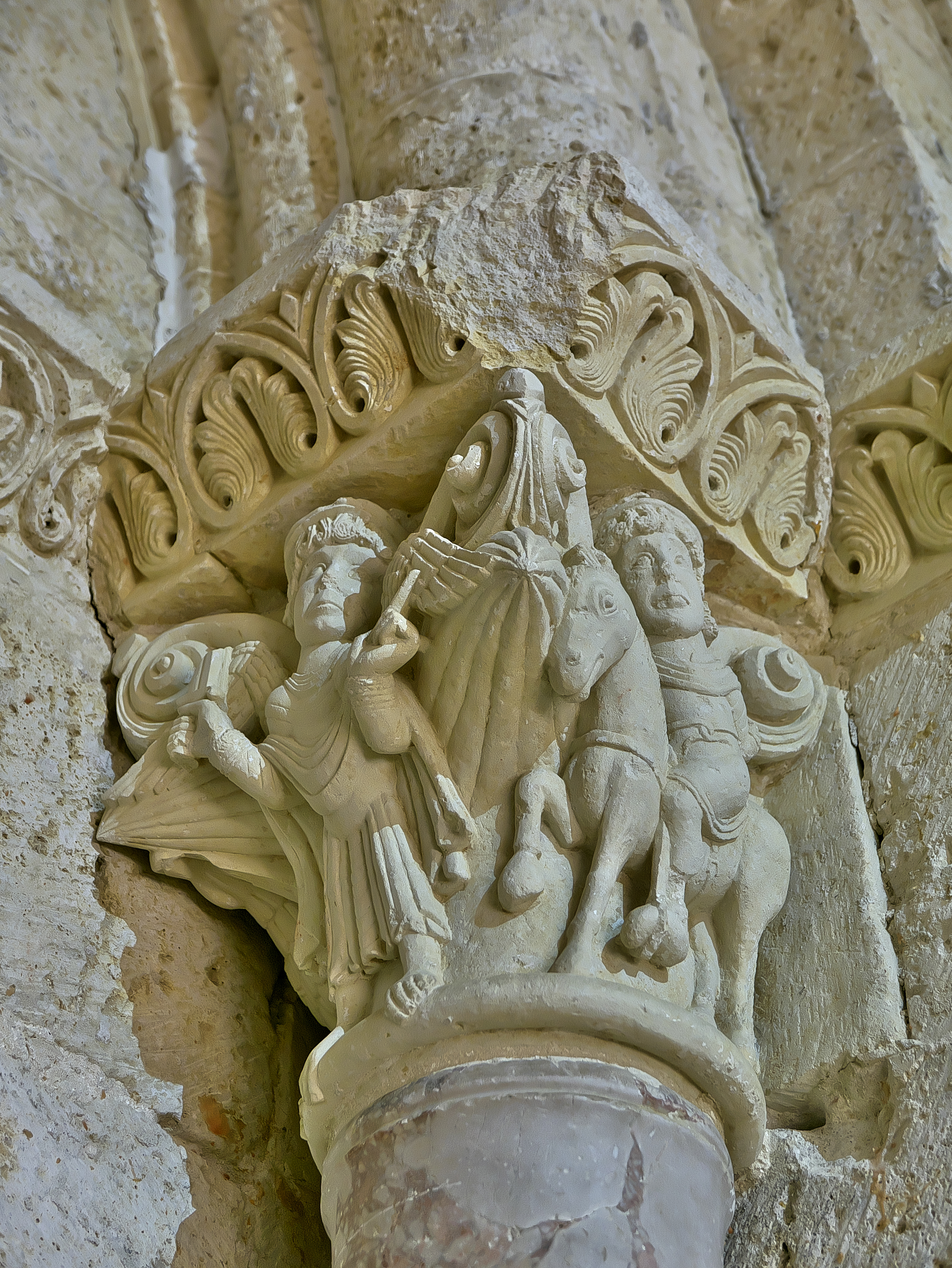 Balaam and the Angel. Capital of the Monastery Saint Zoilo, Carrión de los Condes (Spain)